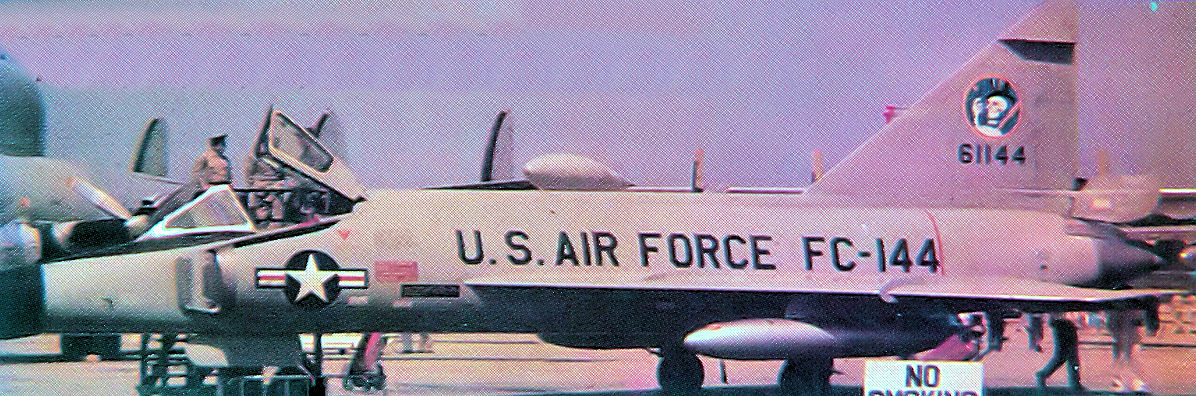 95th Fighter-Interceptor Squadron Convair F-102A-65-CO Delta Dagger 56-1144 1958